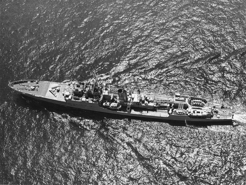 Aerial view of Blackwood-class frigate HMS Hardy (F54). 14 July 1969 (IWM HU 129855)